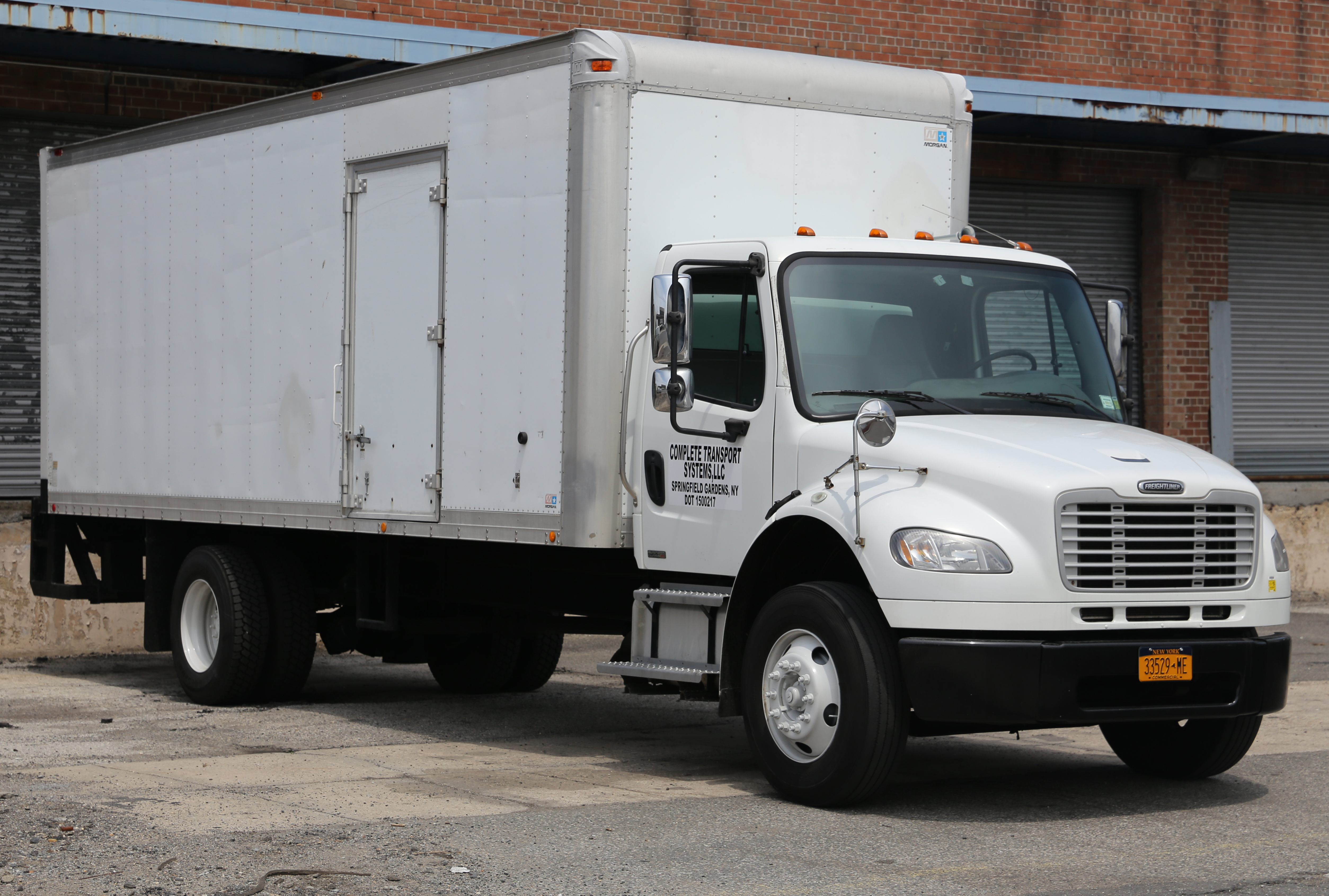 A Freightliner Business Class M2 box rigid truck near JFK airport.